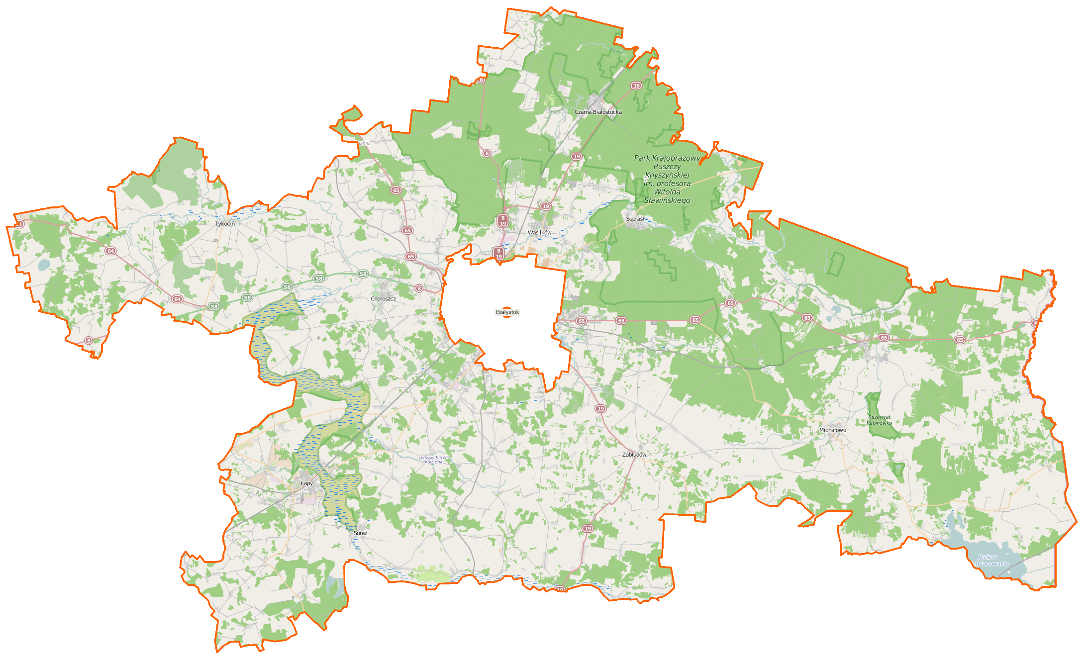 Map of Powiat białostocki, Poland This map of Powiat białostocki was created from OpenStreetMap project data, collected by the community. This map may be incomplete, and may contain errors. Don't rely solely on it for navigation.